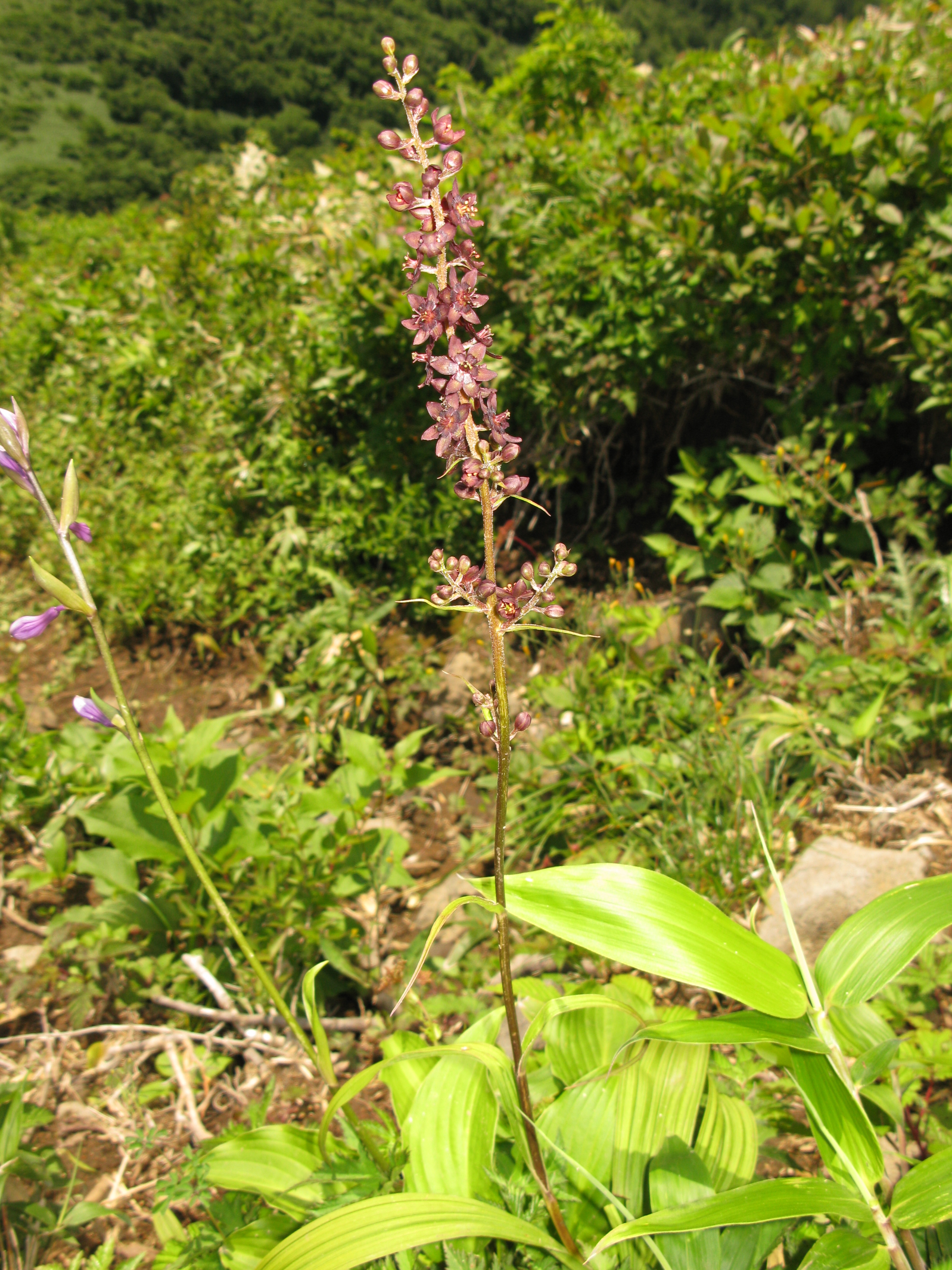 Veratrum maackii var. japonicum,Aizu area,Fukushima pref.,Japan